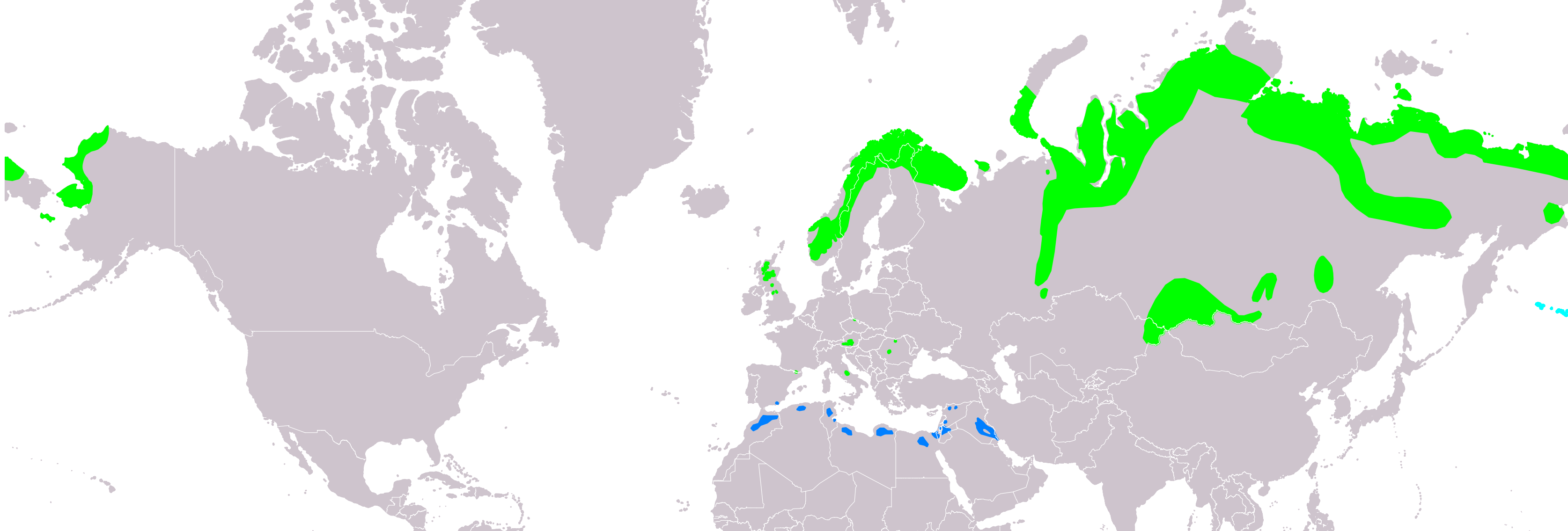 Distribution map of eurasian Doterrel (Eudromias morinellus) according to IUCN version 2018.2 , Legend: Extant, breeding (#00FF00), Extant, passage (#00FFFF), Extant, non-breeding (#007FFF)